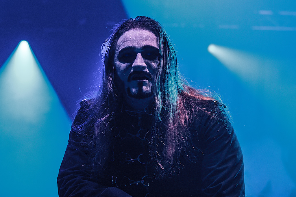 Powerwolf - 15.12.2012 - Knock Out, Karlsruhe